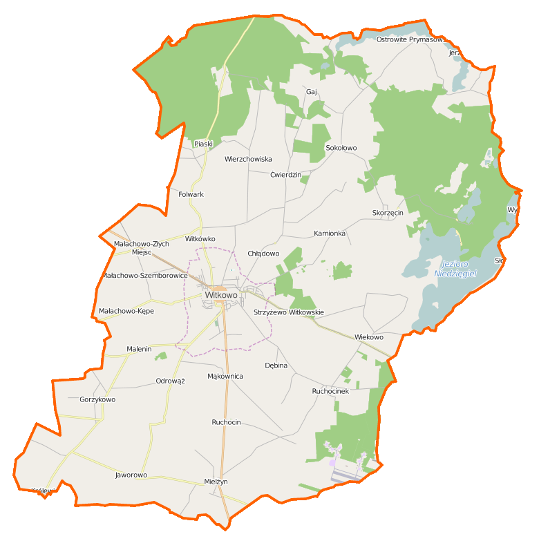 Map of Gmina Witkowo, Poland This map of Witkowo (gmina) was created from OpenStreetMap project data, collected by the community. This map may be incomplete, and may contain errors. Don't rely solely on it for navigation. Border coordinates52.528817.6633←↕→17.930752.3647